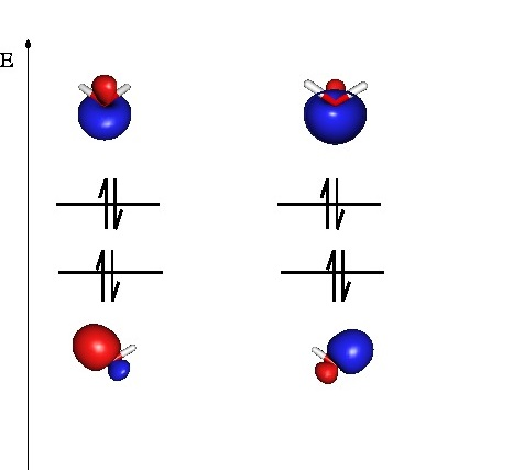 Valence Bond Theory orbital diagram for water molecule.